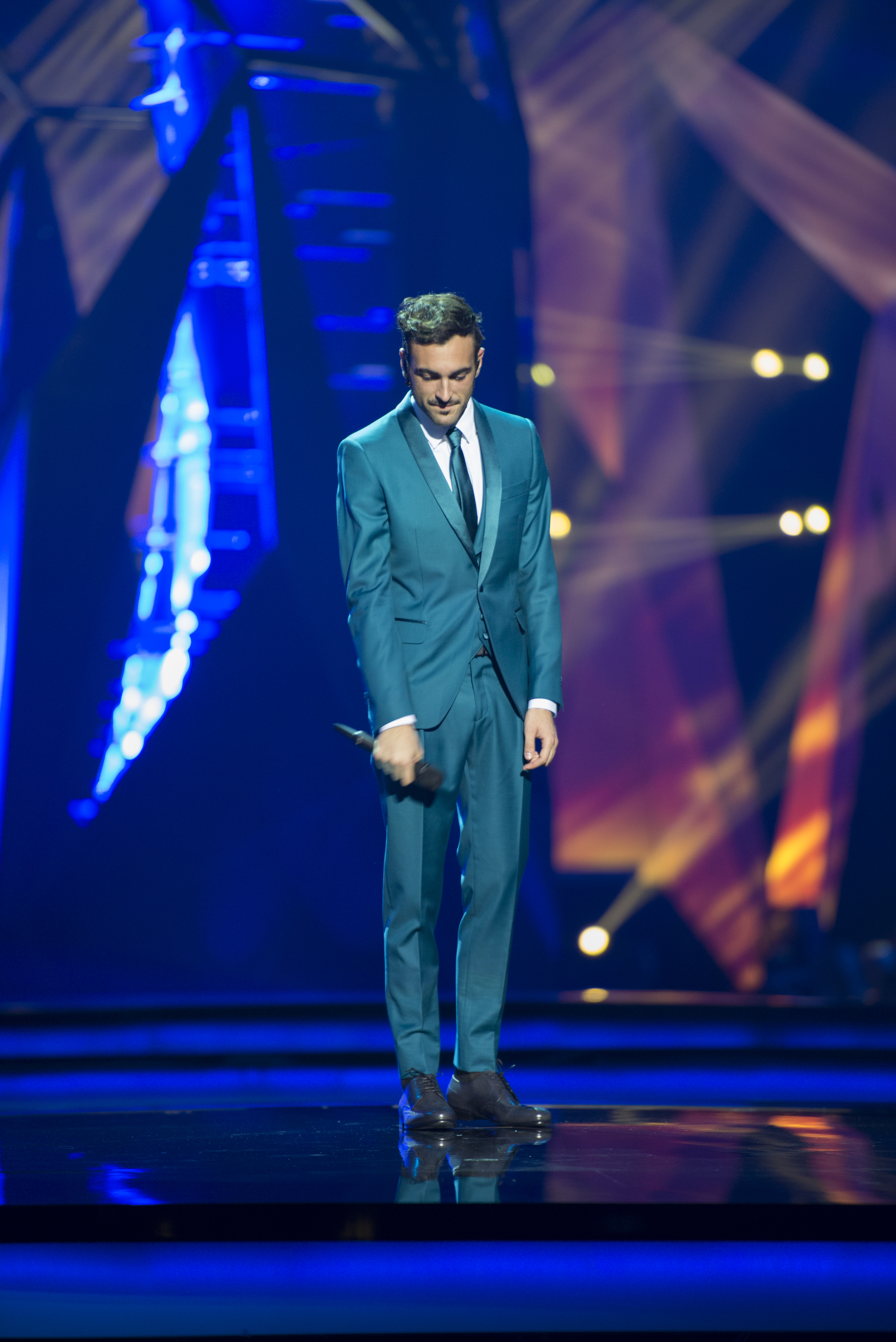 Marco Mengoni representing Italy with the song "L'essenziale" during the first dress rehearsal of the final of the Eurovision Song Contest 2013 in Malmö. (Help translate this text)